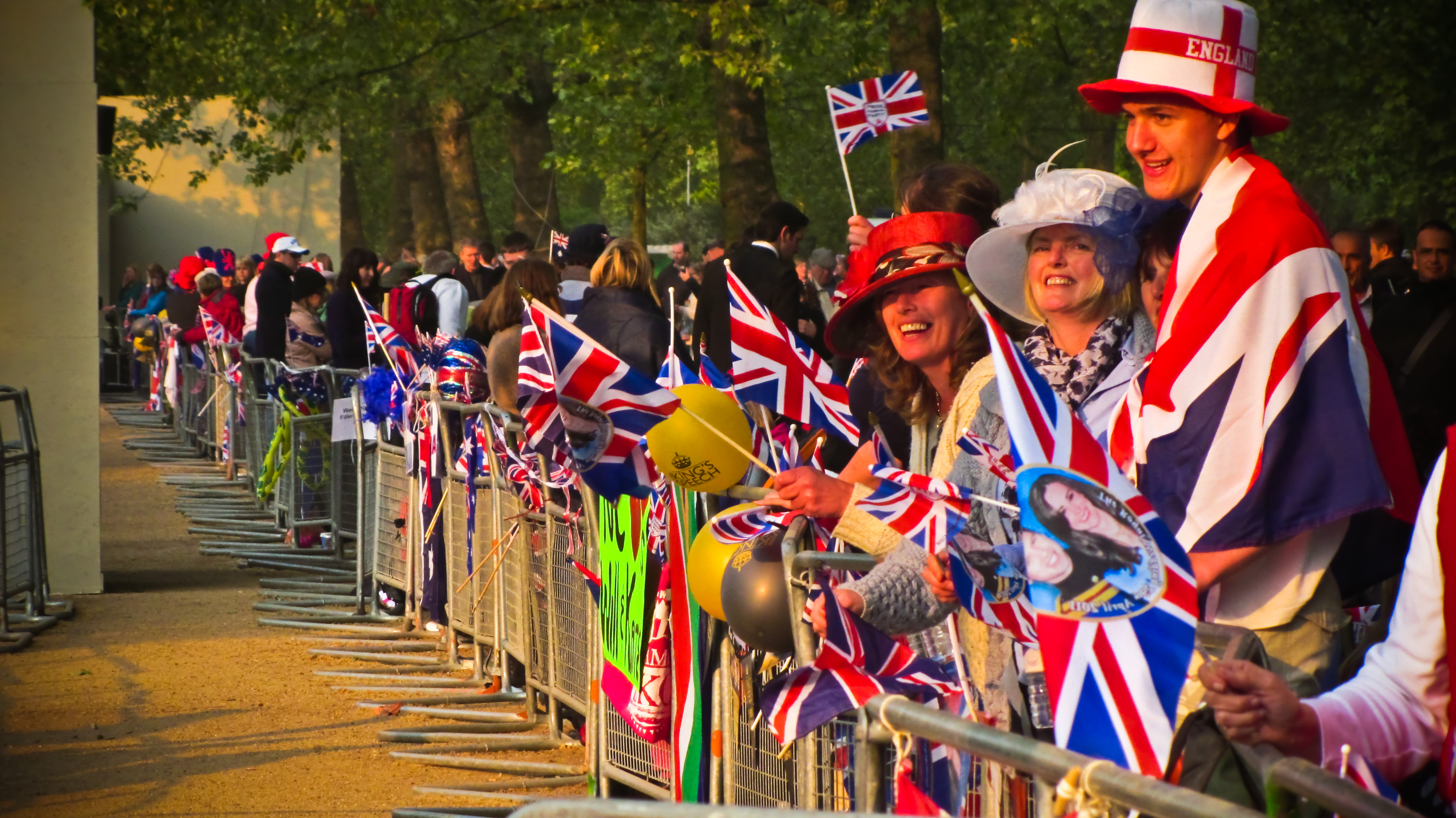 Some of the many people lining the Mall the day before the wedding.